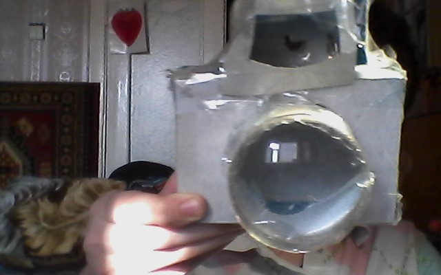 Обскура